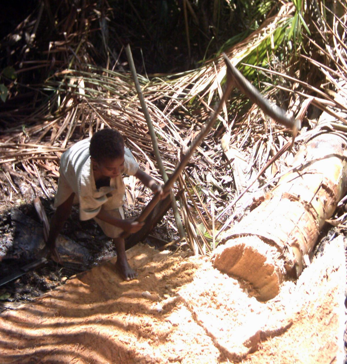 A Sago palm is "harvested" so that the starch can be used for Sago production, East Sepik Province, Papua New Guinea